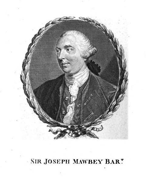 Portrait of Sir Joseph Mawbey, 1st Baronet (1730–1798), English politician